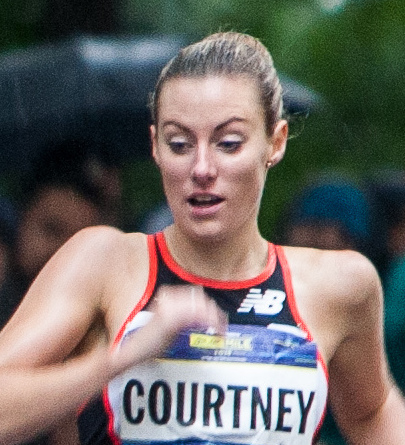 2018 Fifth Avenue Mile